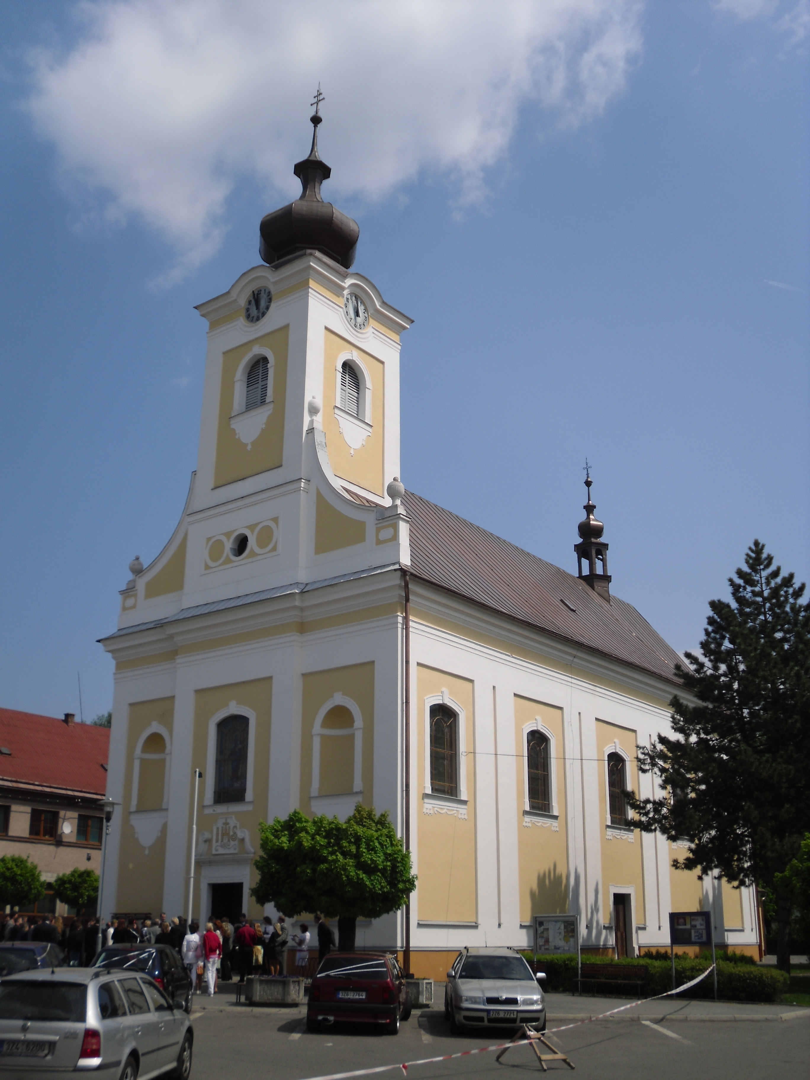 Slušovice (Zlín District), Czech Republic - church